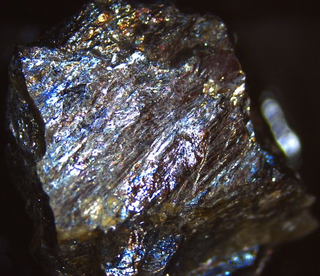 Löllingite (Size: 2 cm) Locality: Hebron, Oxford Co., Maine, USA Original description: Shiny micromount of lollingite, about 2 cm in size.